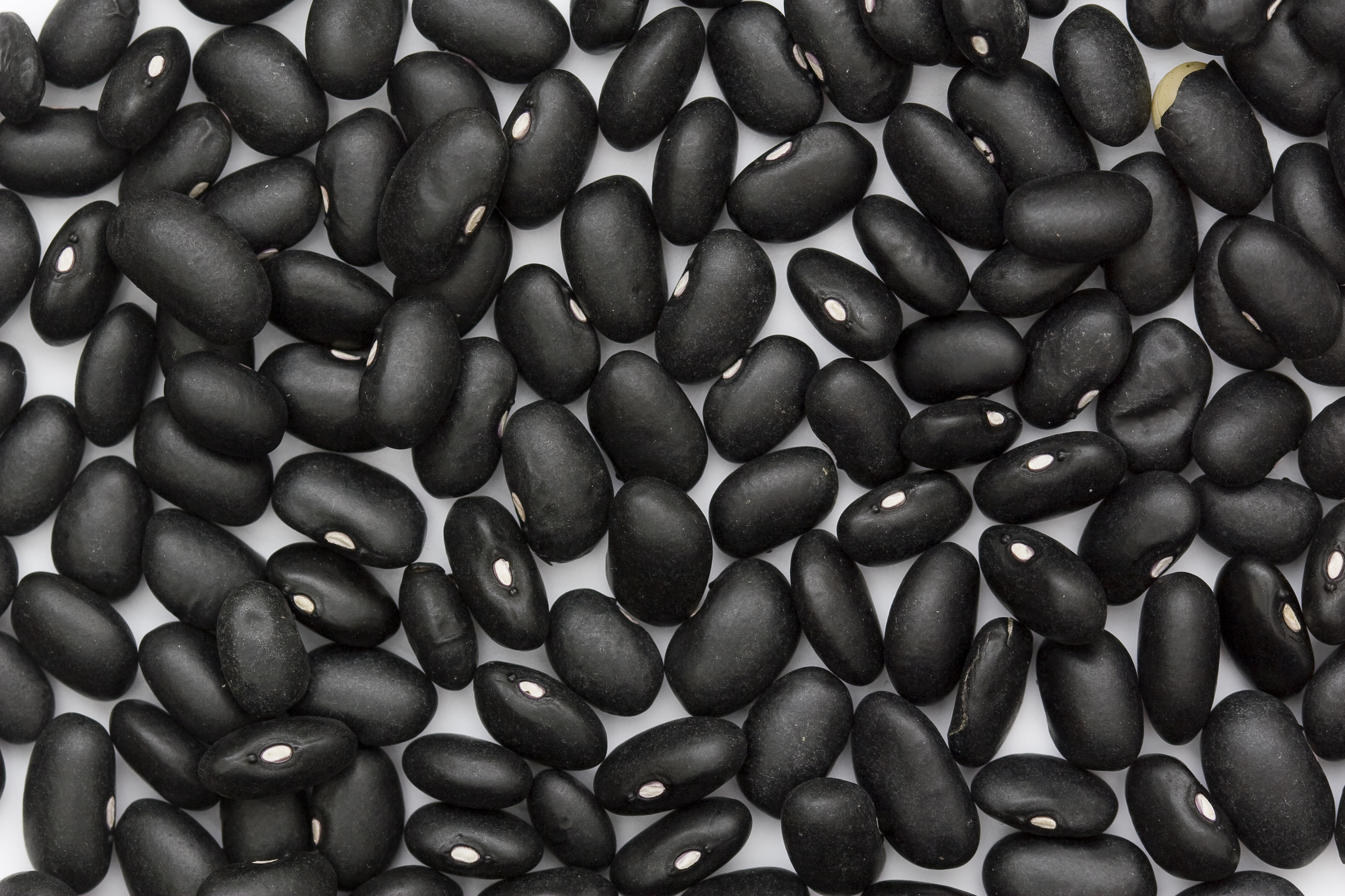 Close up picture of Black Turtle Bean